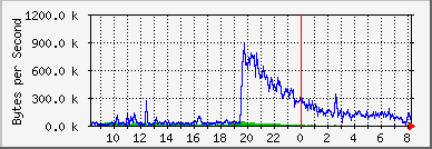 MRTG Traffic Graph showing the Slashdot effect in action.